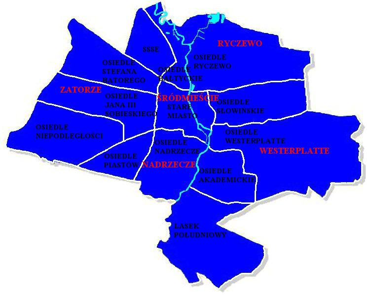 Map of districts in Słupsk.